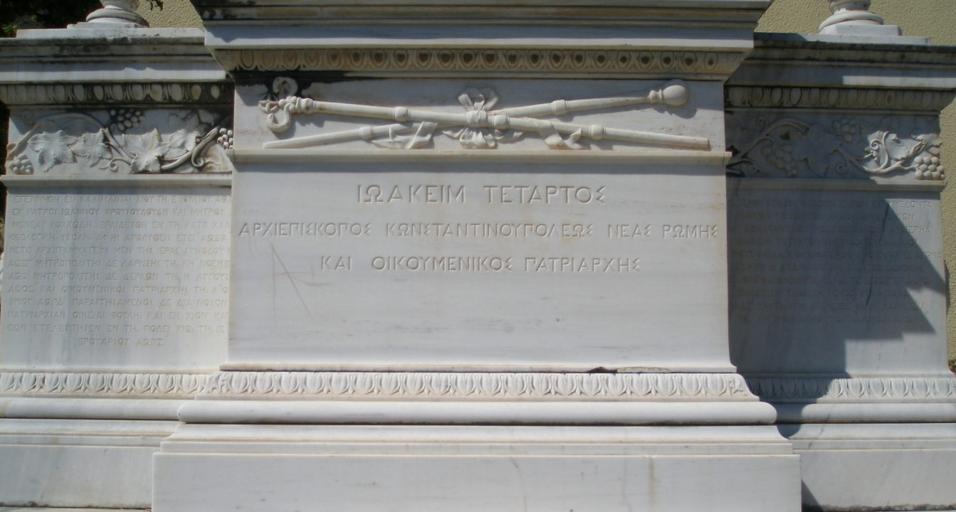 Tomb of Patriarch Joachim IV of Constantinople at Chios island